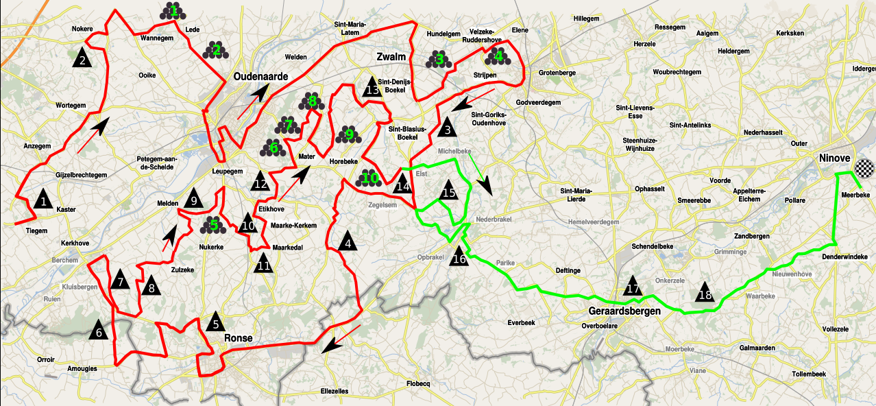 Map of the the Ronde van Vlaanderen 2011 men, starting with the first berg.